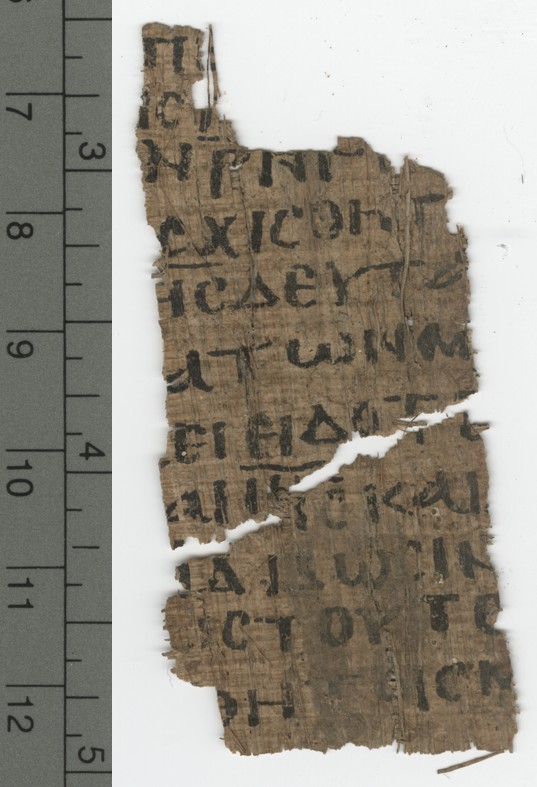 Papyrus 122, now at the Papyrology Rooms, Sackler Library, Oxford; P.Oxy.LXXI 4806